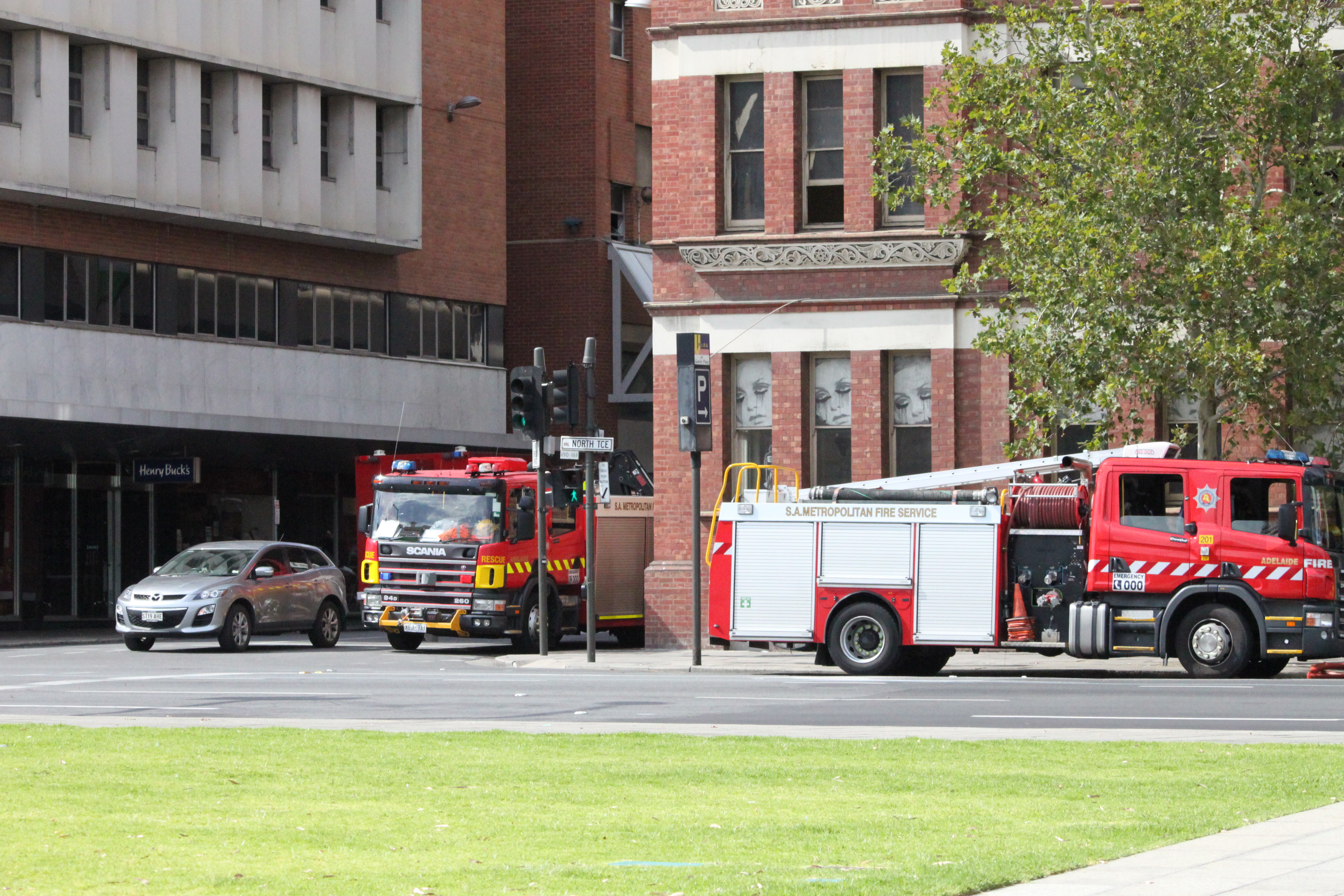 Fire engines turning into North Terrace, Adelaide.